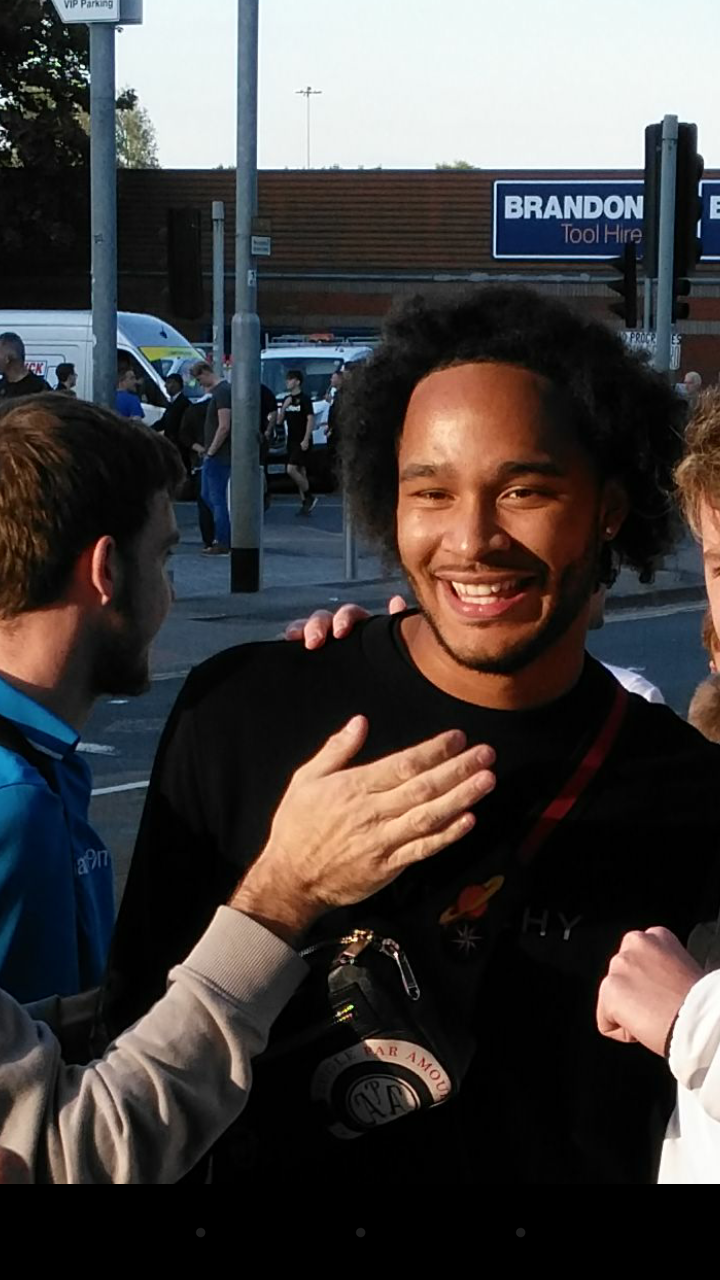 Izzy Brown poses for photos with Leeds United fans outside Elland Road